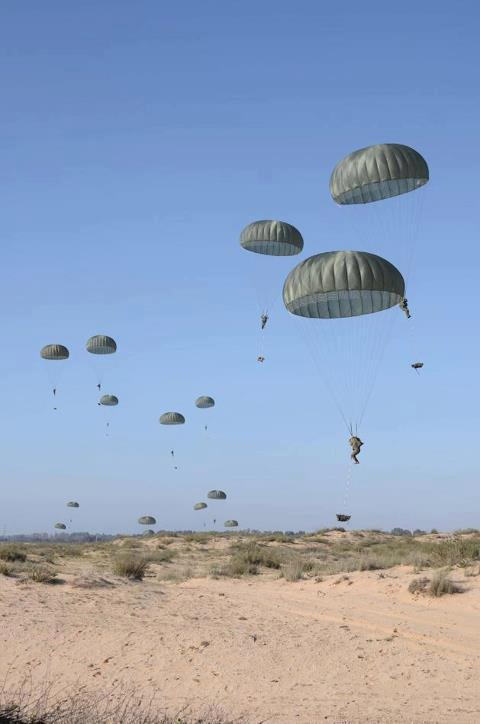 March 27, 2012 Paratroopers rain down over southern Israel. These guys are more reassuring than the usual rockets that land in the area. Featured as Photo of the Day on March 27, 2012 The Israel Defense Forces Facebook The Israel Defense Forces blog Follow us on Twitter